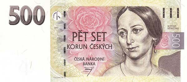 Obverse of Czech koruna five-hundred crowns bill.